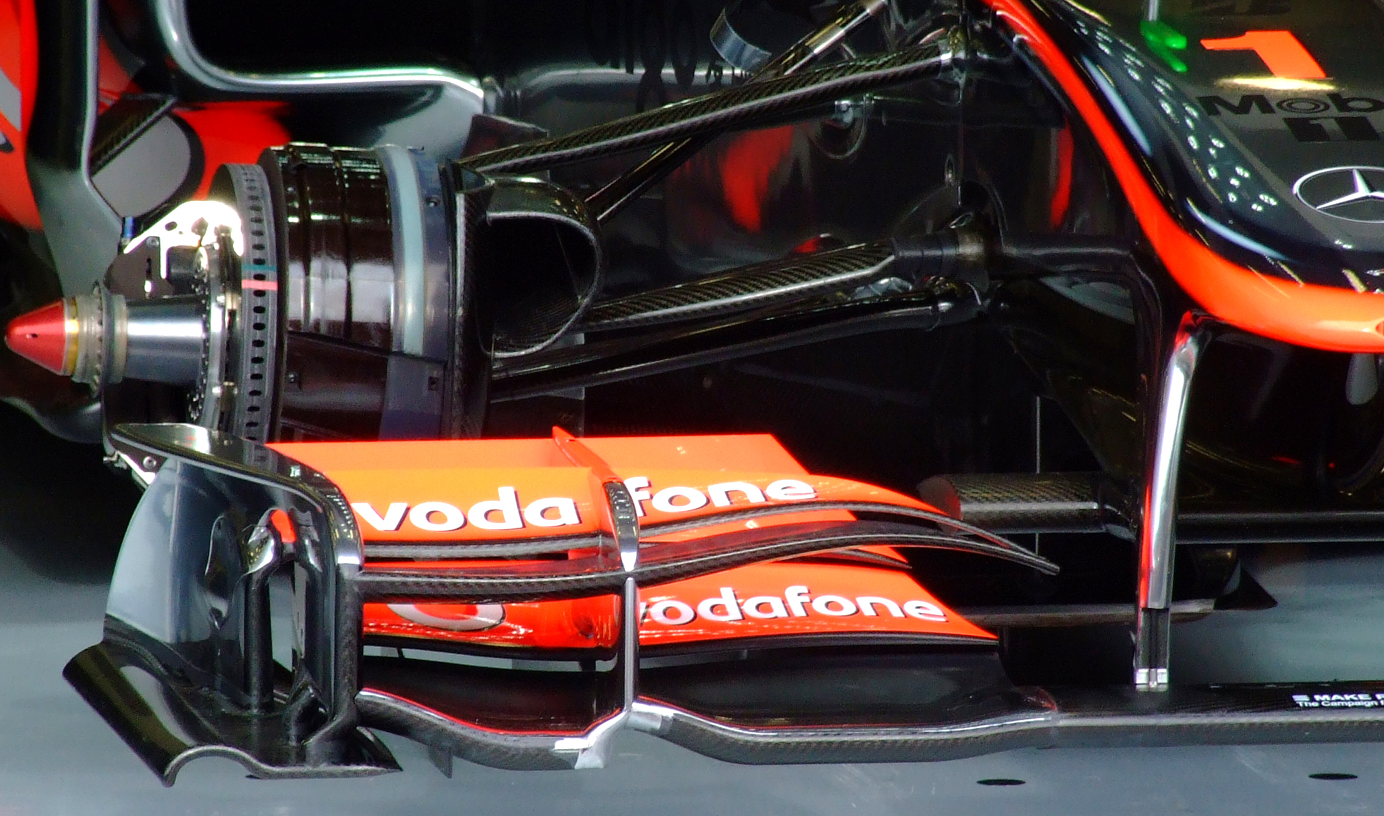 Detail of the front wing and suspension of Jenson Button's McLaren Mercedes MP4-25.